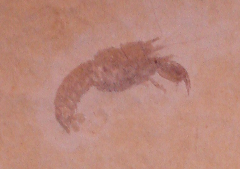 fossil of Glyphea viohli